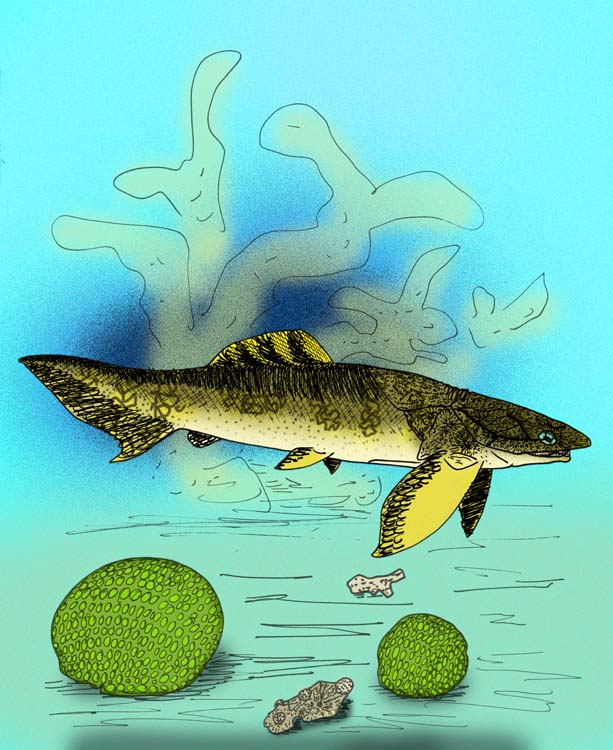 Reconstruction of the enigmatic buchanosteid brachythoracid arthrodire placoderm, Arenipiscis westolli, from the Taemes Wee Jasper Reef fauna, of Emsian New South Wales, near the Goodradigbee River and Burrinjuck Dam. Is related to Buchanosteus.